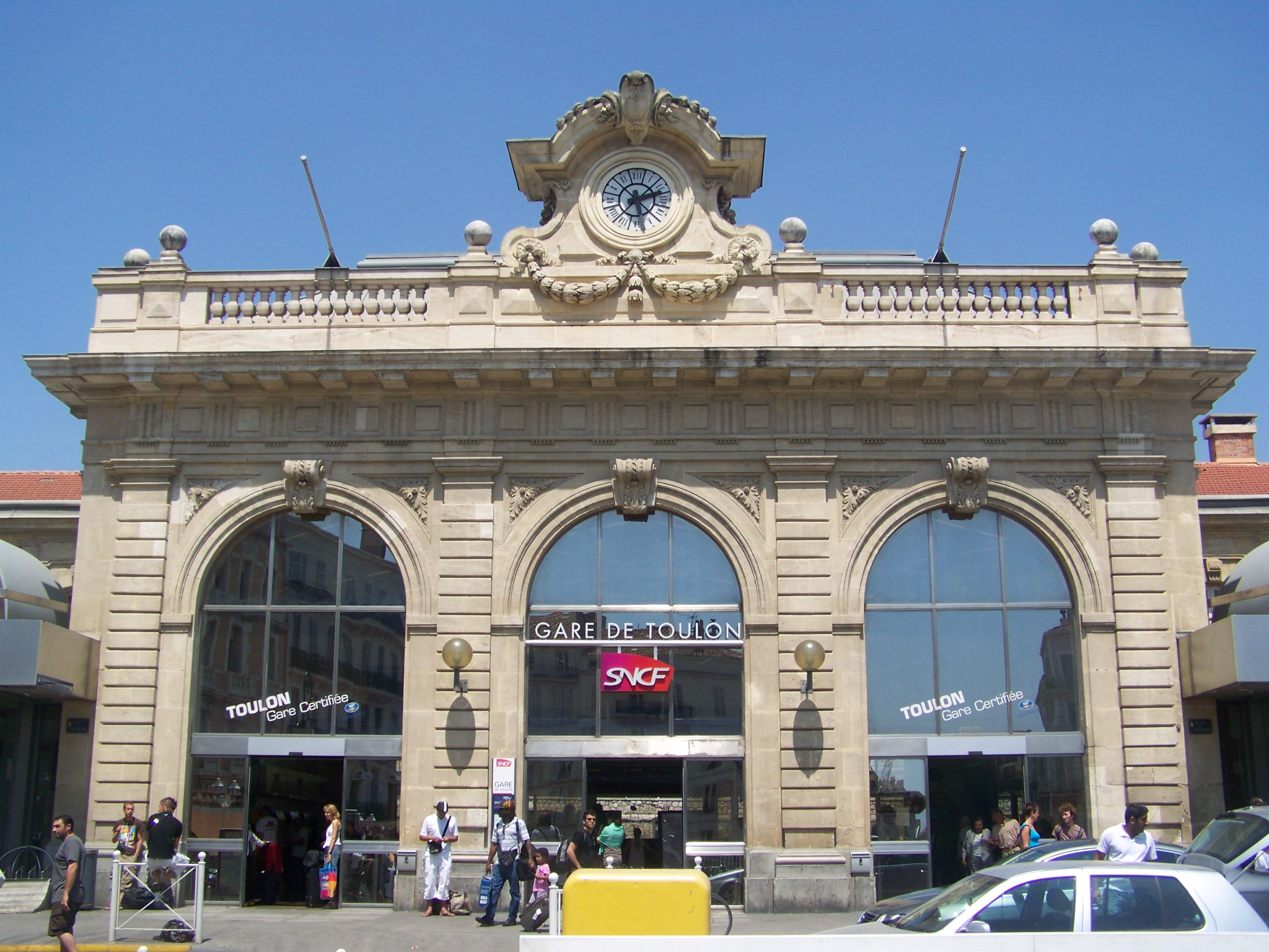 View of the facade of the French city of Toulon railway station, in Var.